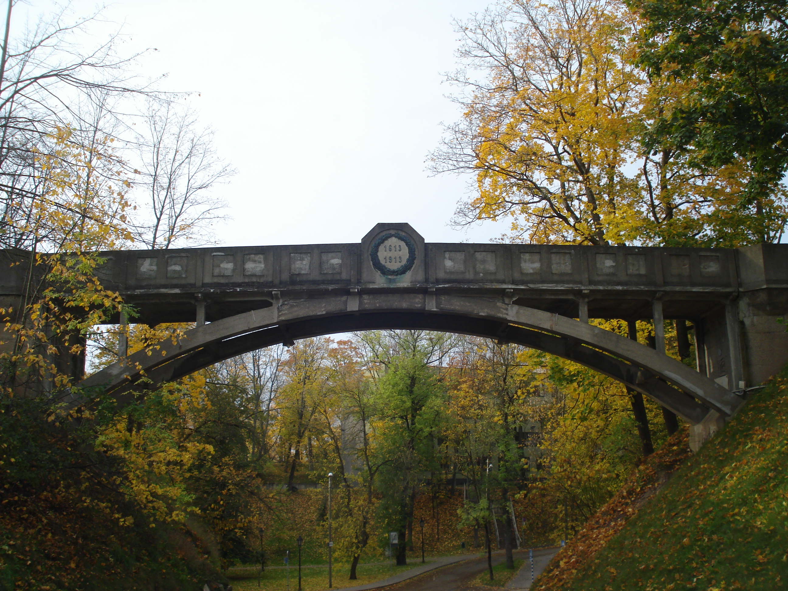 The Devil's bridge in Tartu (Estonia) built in 1913 to commemorate the 300th anniversary of the Romanov dinasty